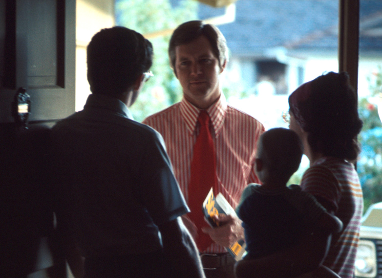 Stan Statham campaigning door-to-door during his initial 1976 election to the California State Assembly.